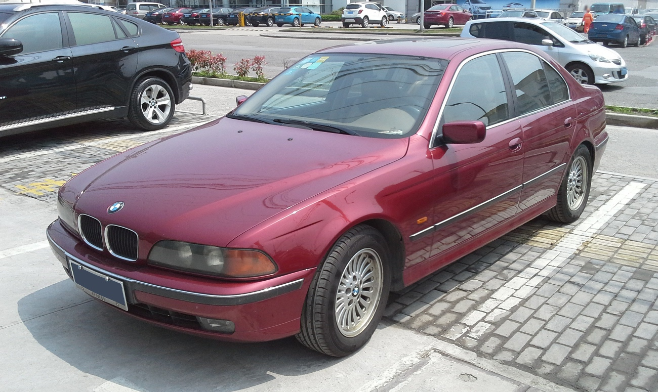 BMW 5-Series E39 photographed in Shanghai, China.